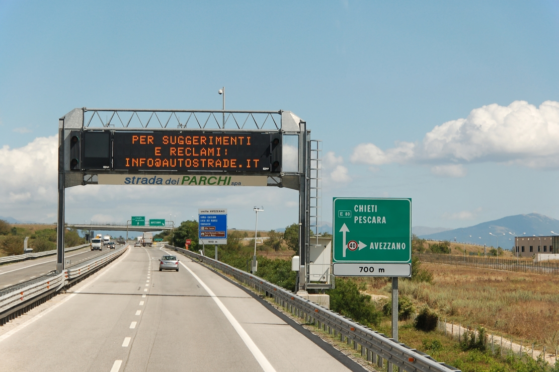 A25 Motorway Italy